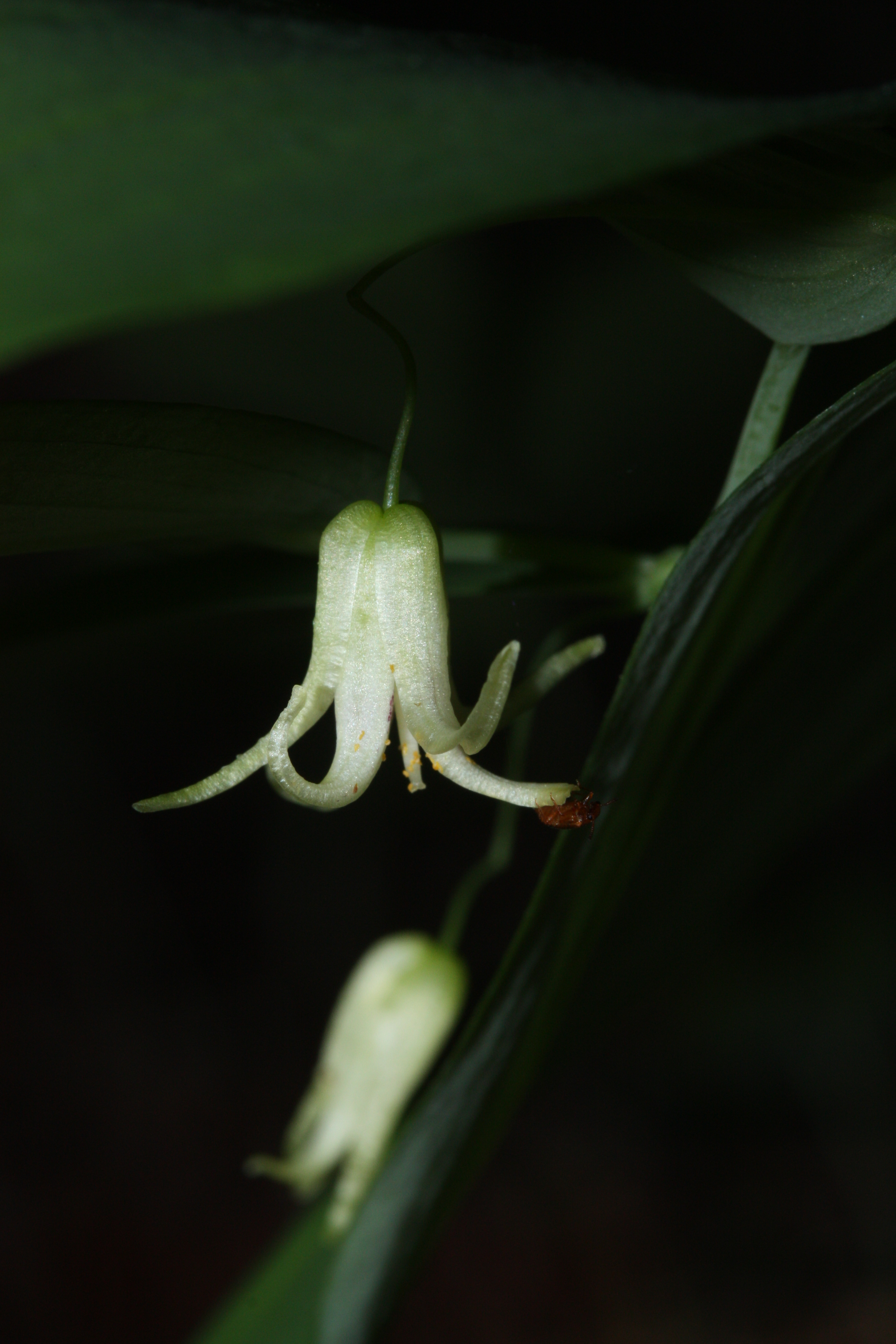 Clasping Twistedstalk, Claspleaf Twistedstalk